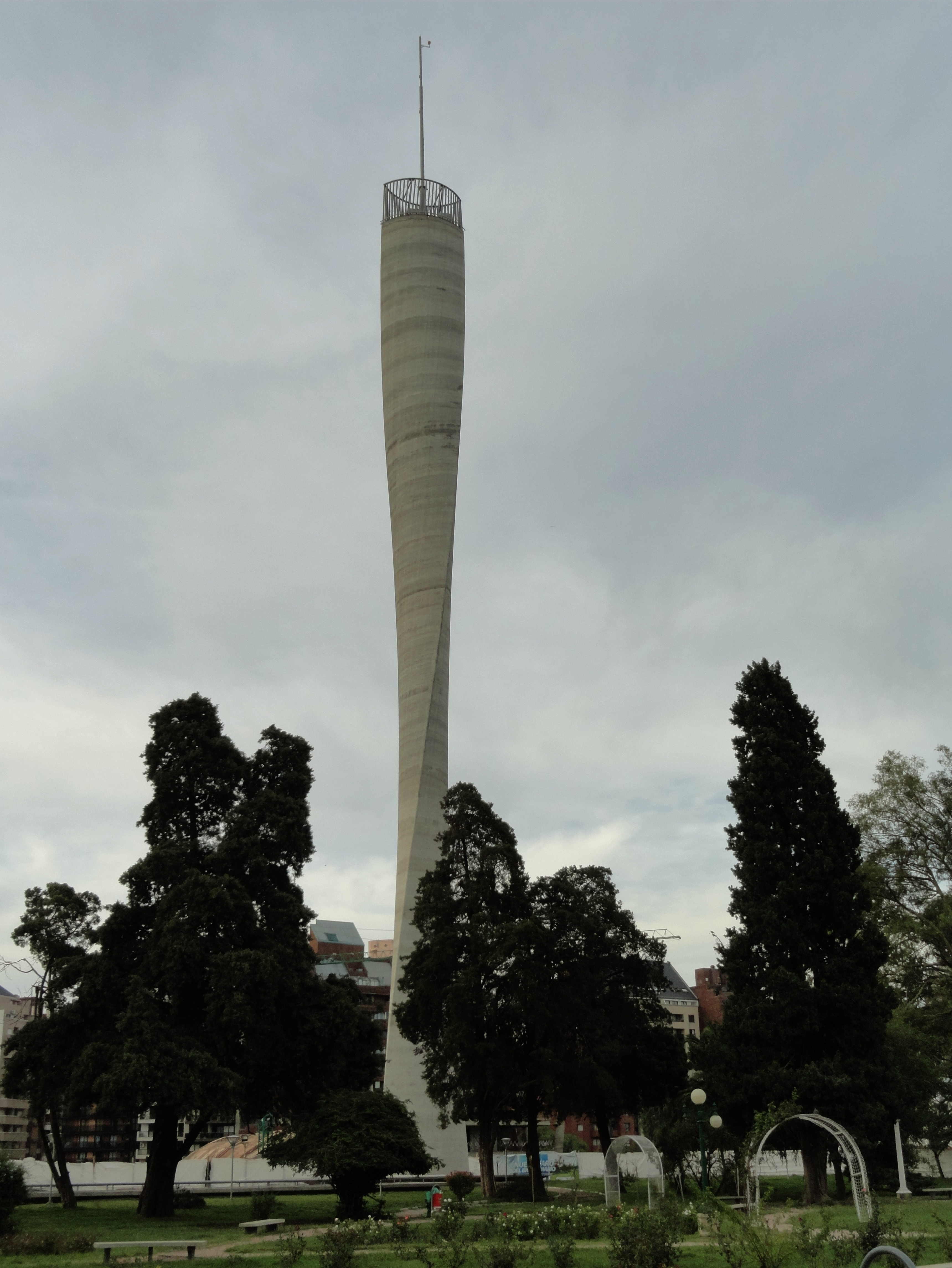 Bicentennial lighthouse. Cordoba city, Argentina.